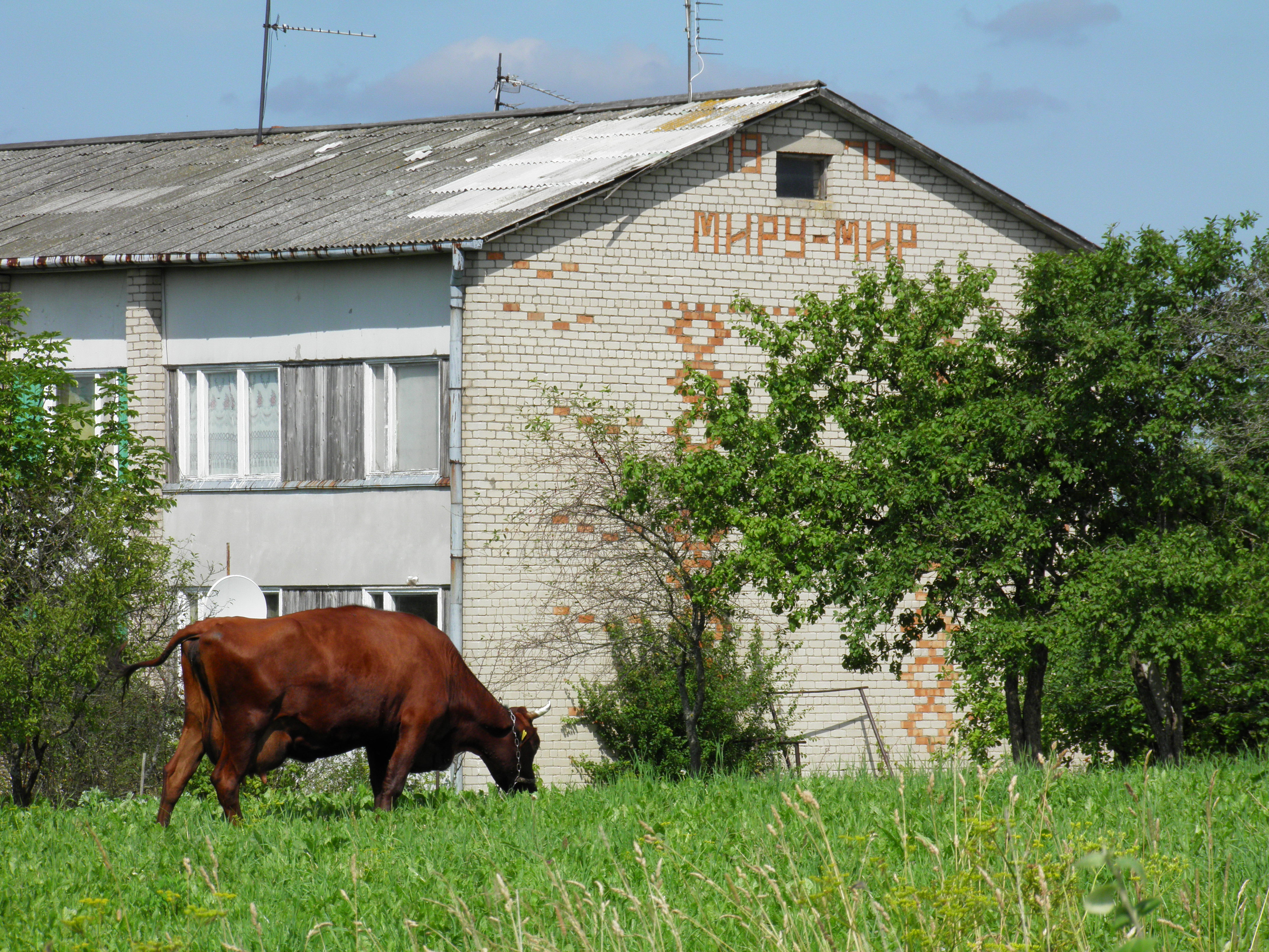 House and cow, Bebrenes pagasts, Latvia